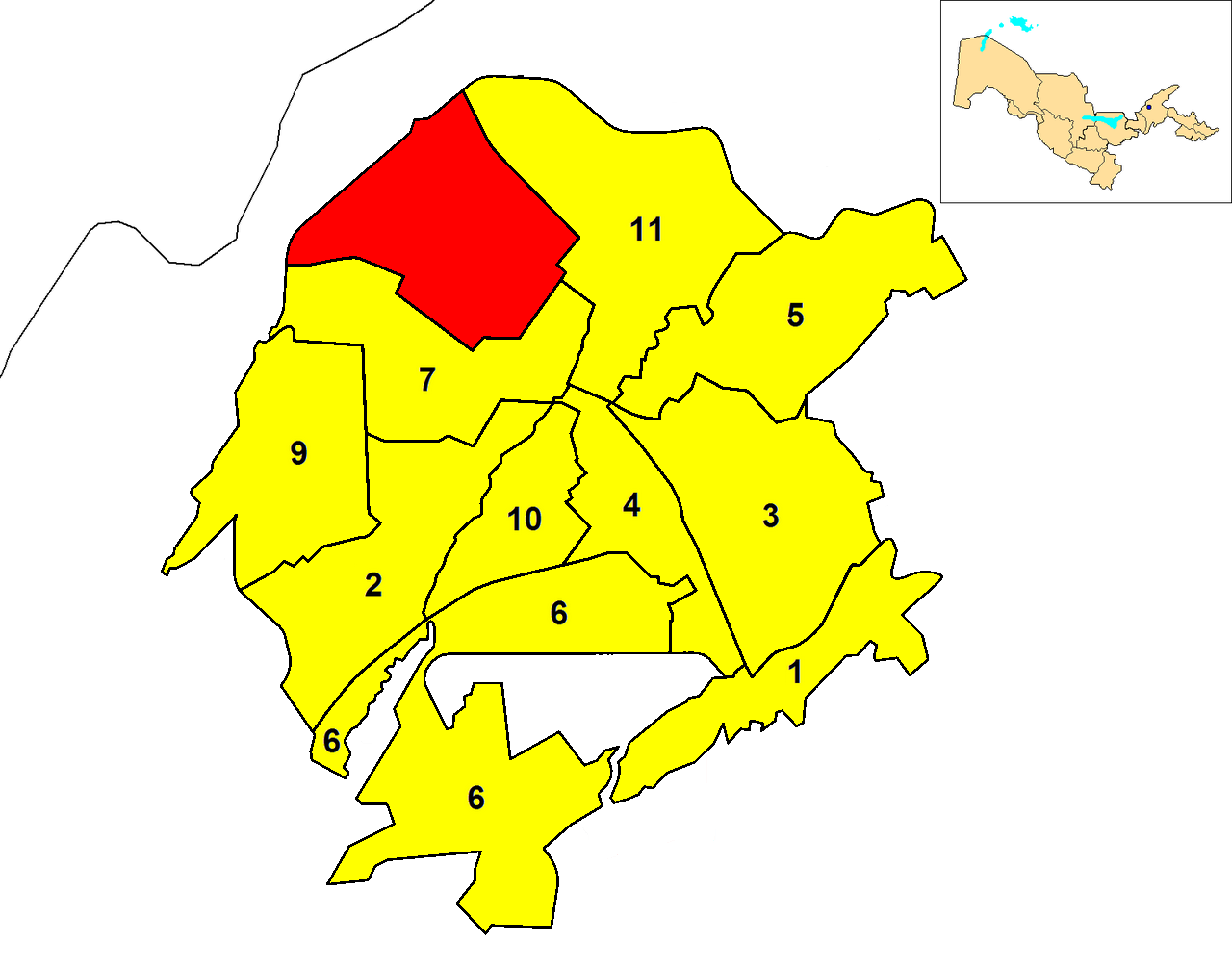 Locator map of Olmazar district (red) within Tashkent. A map of Uzbekistan, highlighting Tashkent (blue dot), is shown in the upper right corner